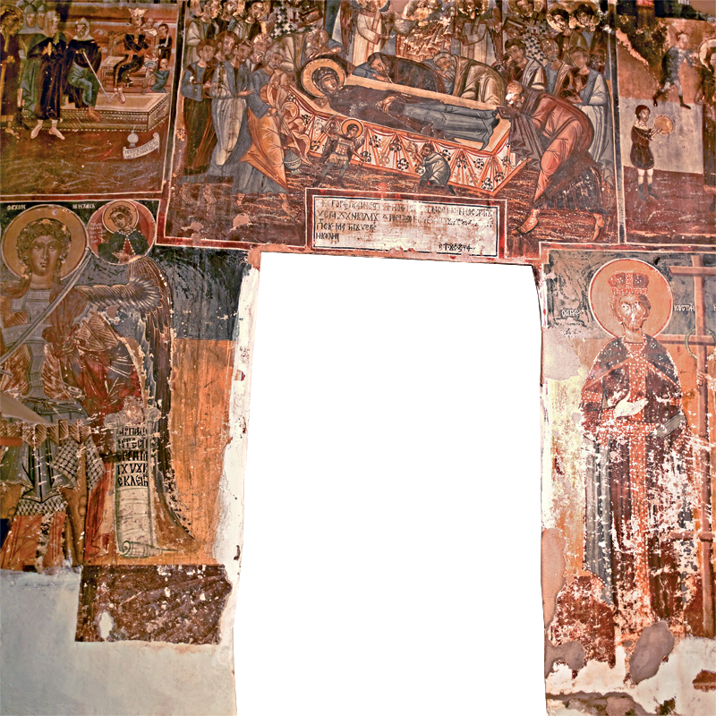 Saint Nicholas Church in Platy Shtarbovo Fresco, 1591